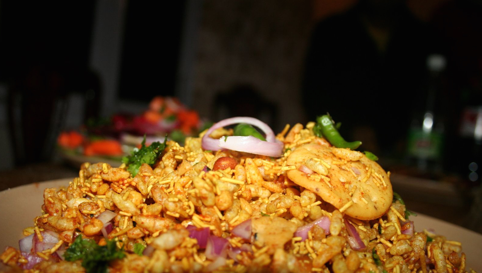 Bhel Puri, a common evening snack. Each part of india has its own variant, this is ours :)